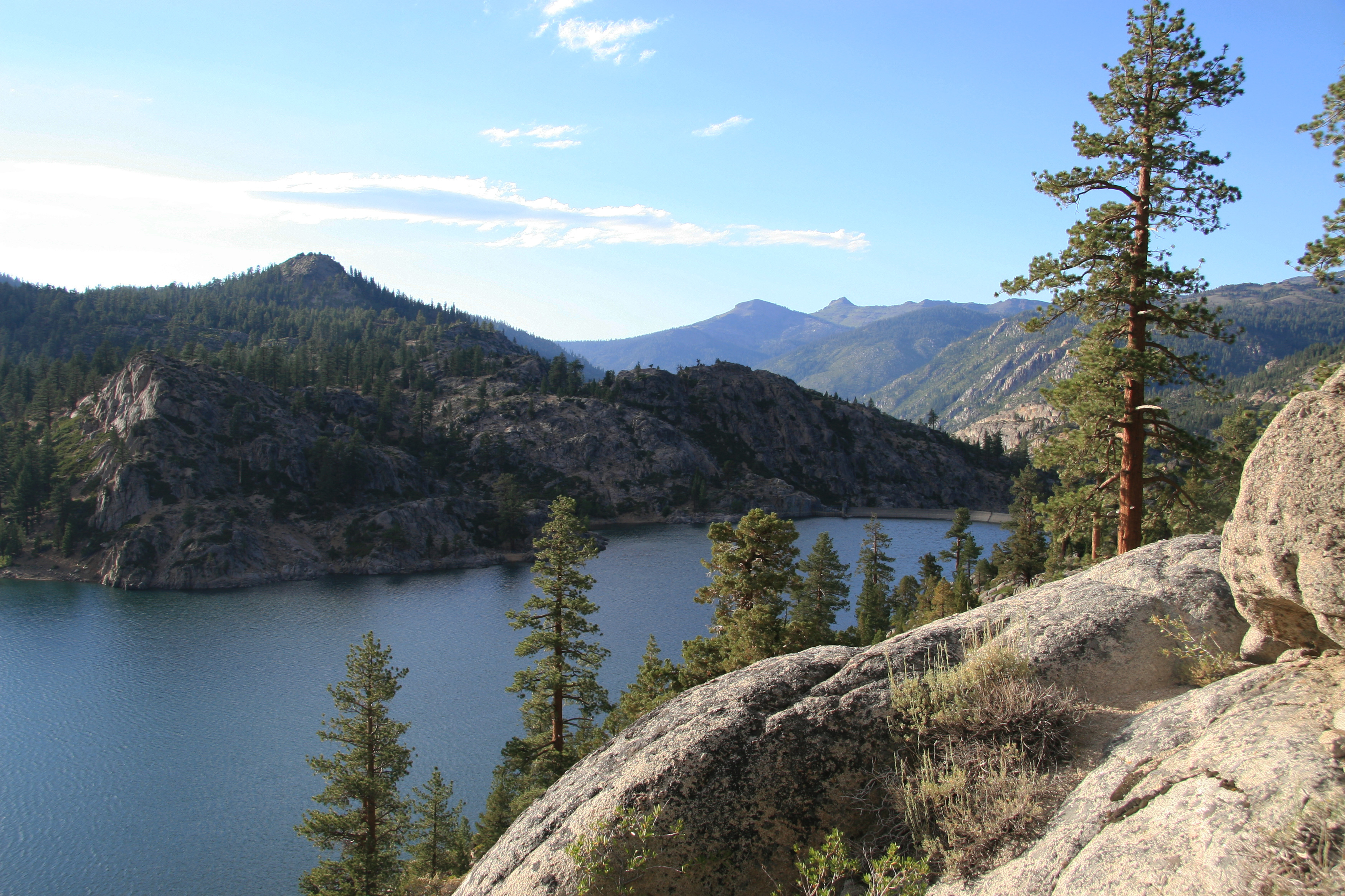 Looking down from trail along east side of Relief Reservoir (dam at right), northern boundary of the Emigrant Wilderness.